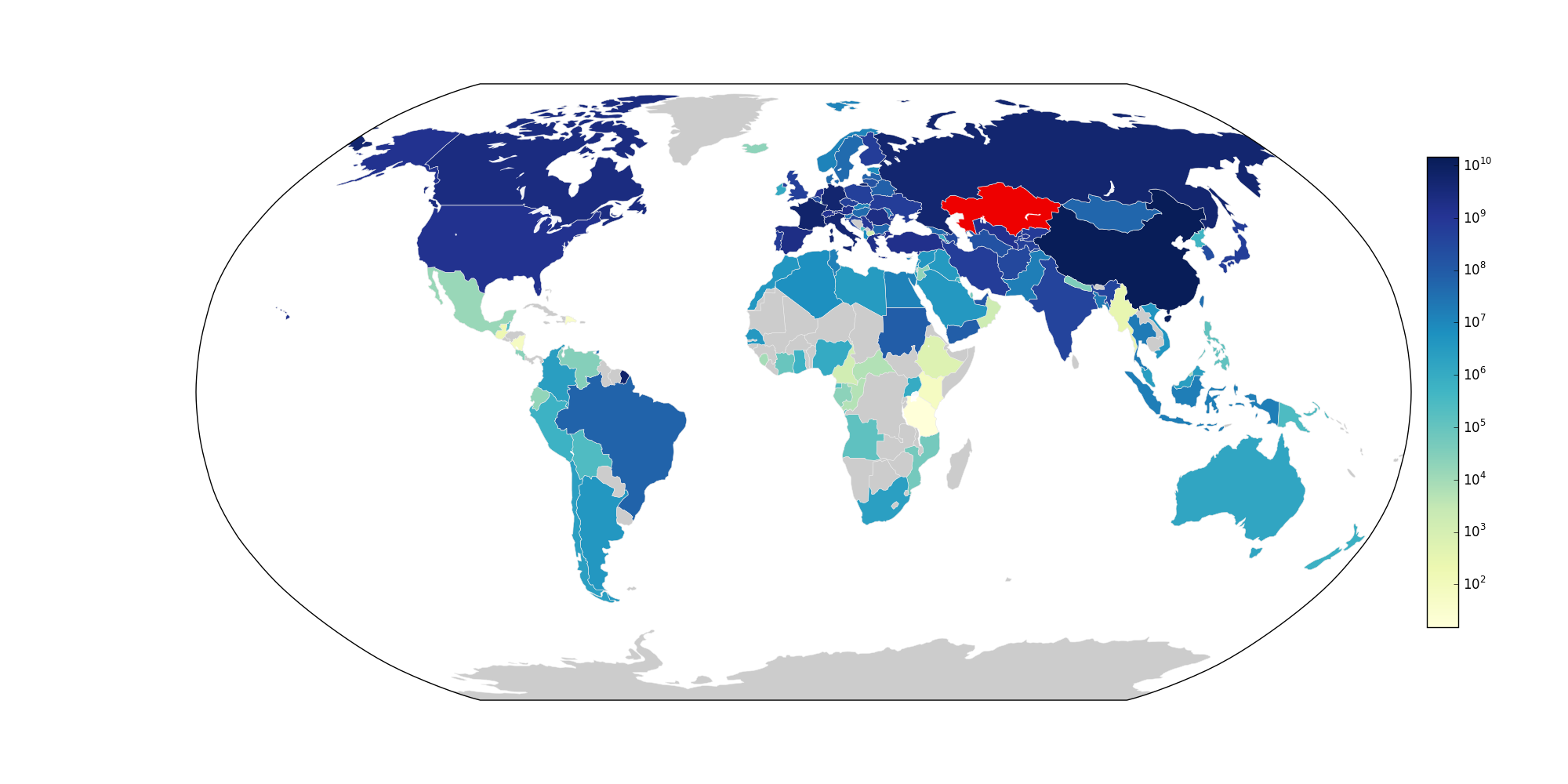 This bubble map shows the global distribution of Kazakhstani exports in 2006 as a percentage of the top market (Germany - $3,716,770,000). This map is consistent with incomplete set of data too as long as the top producer is known. It resolves the accessibility issues faced by colour-coded maps that may not be properly rendered in old computer screens. Data was extracted on 22nd September 2007 from Based on :Image:BlankMap-World.png